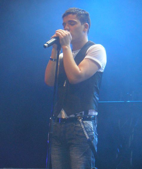 Anthony Callea live in Concert The Palms at Crown 6th December 08 One Night Only